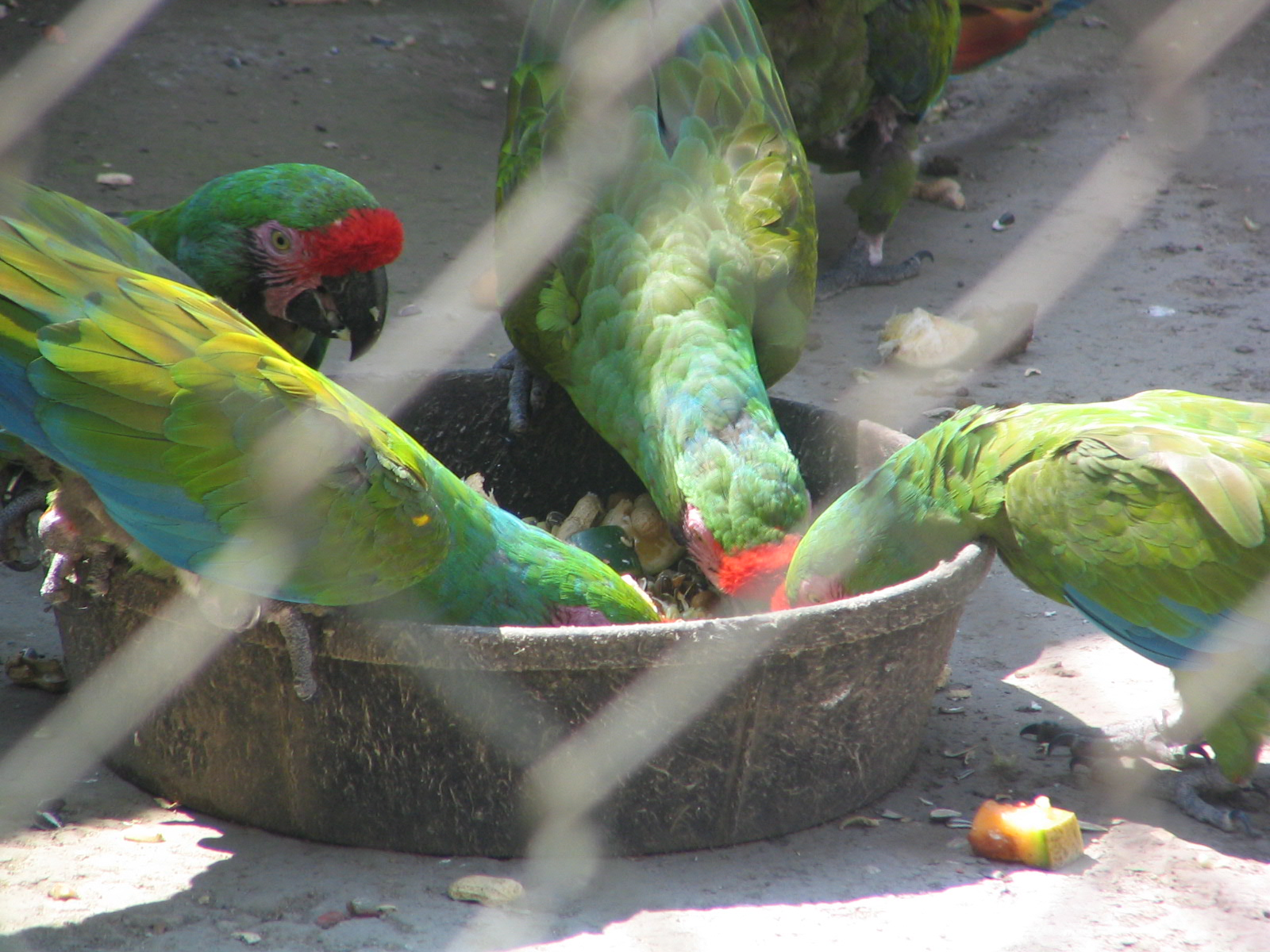 Four Military Macaw's feeding in a zoo.